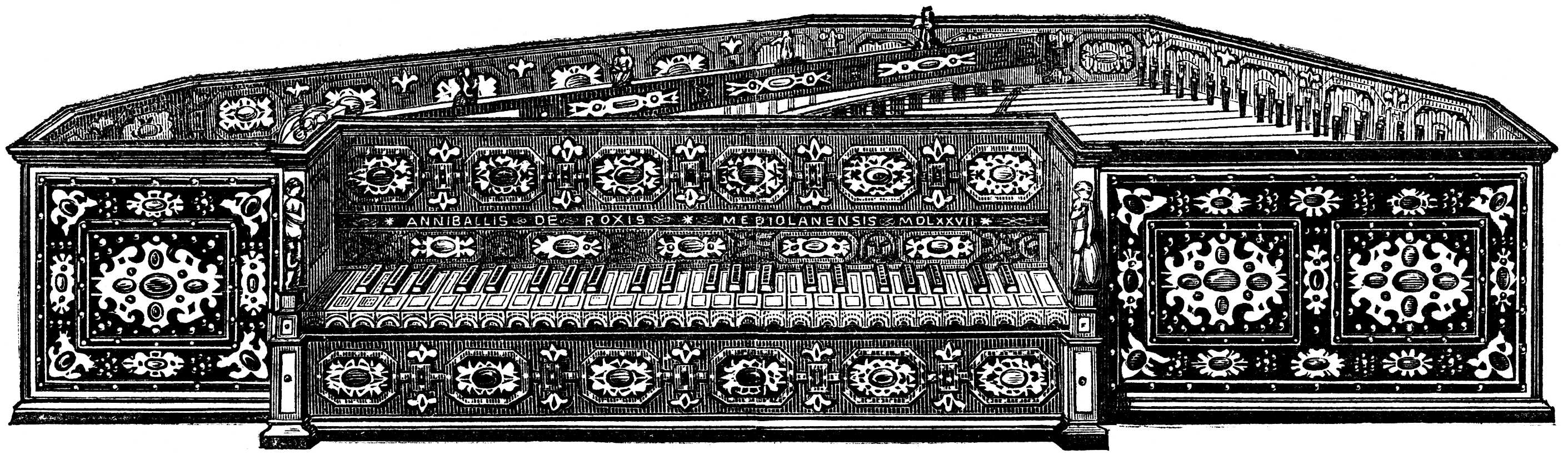 Spinet - drawing of a 1577 instrument by Annibale dei Rossi (London, Victoria and Albert Museum)